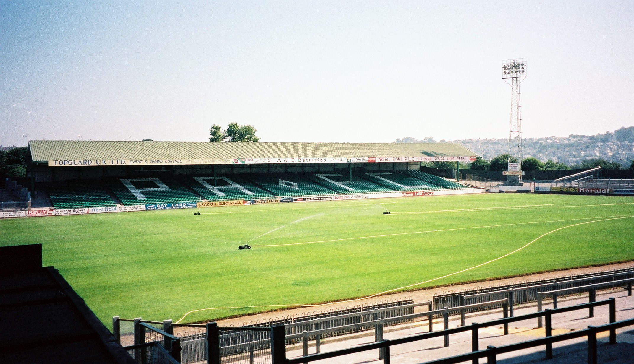 See where this picture was taken. [?]